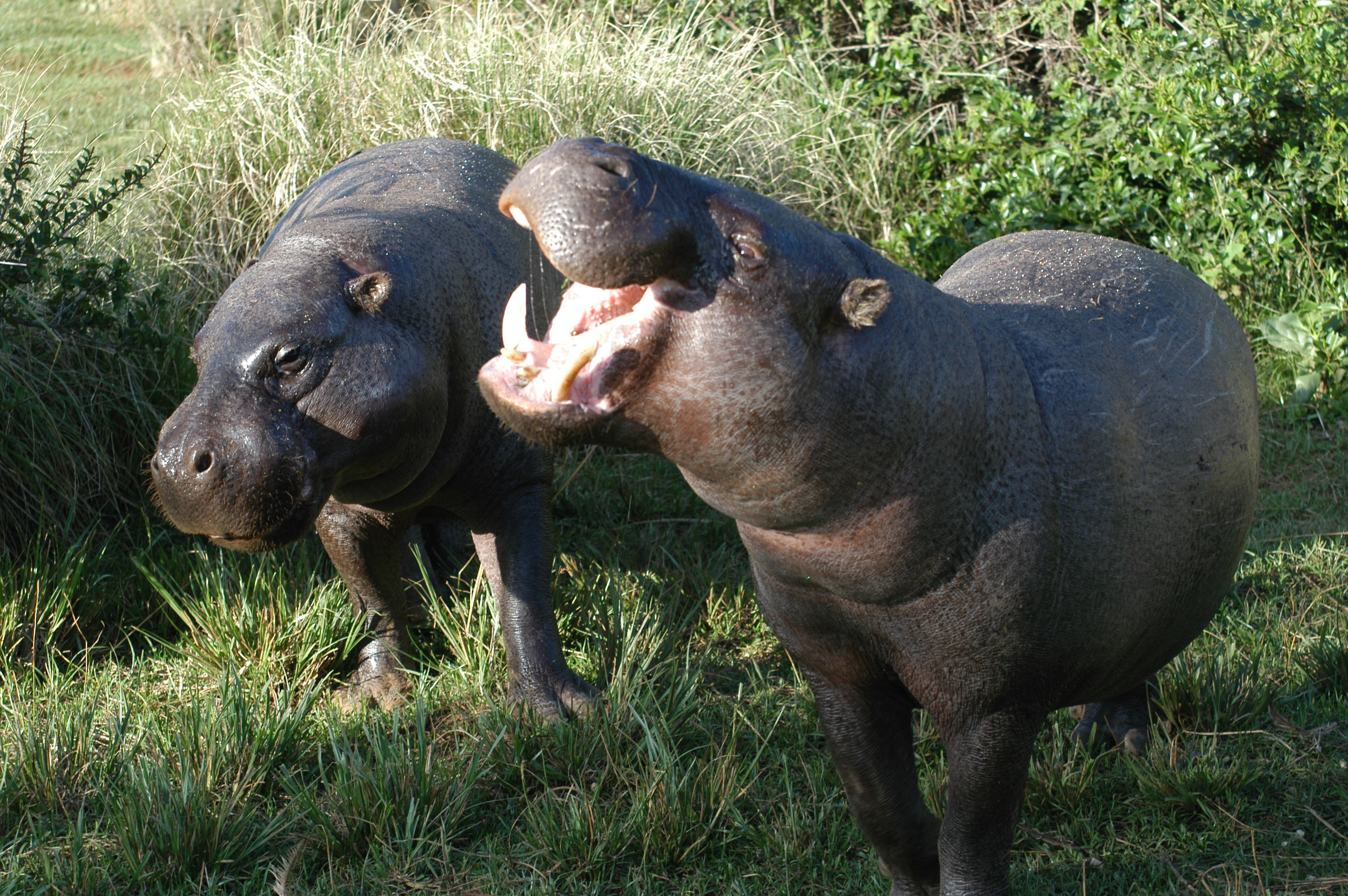 Here is a photo of a pygmy hippopotamus pair at the Mount Kenya Wildlife Conservancy. The two were a gift to the people of Kenya (from a country in West Africa - I forget which) and are better cared for here than when they were back in Nairobi. Pygmy hippoptomus' really enjoy having their earlobes massaged. It's a known fact that it makes the hairs on their backs stand up. Chuck @ (talk) 18:37, 1 June 2008 (UTC)